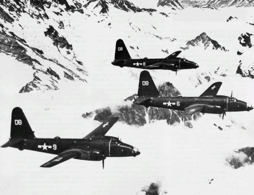 Three U.S. Navy Lockheed P2V-2 Neptune aircraft of patrol squadron VP-4 over southeast Alaska (USA), 1948.